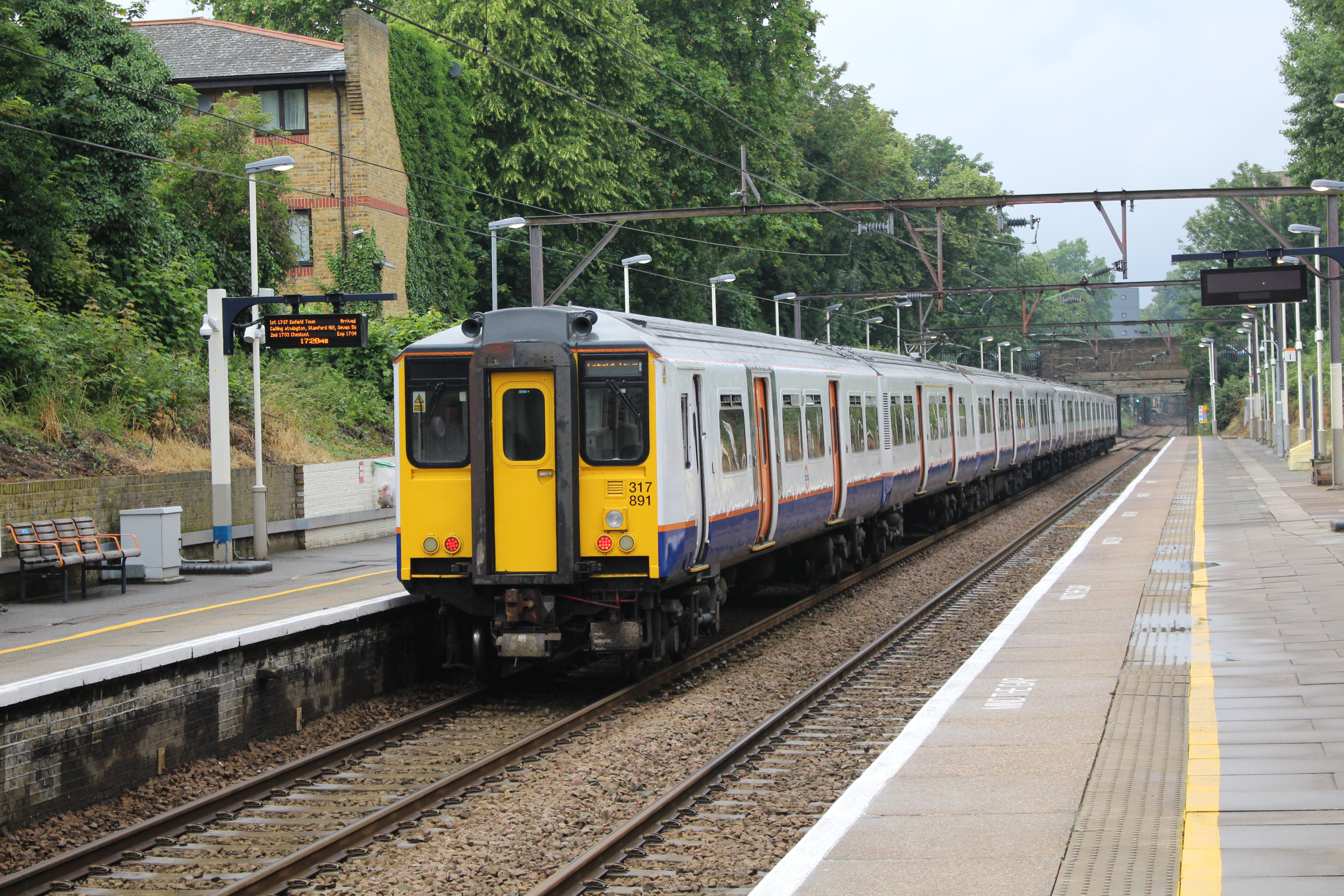 A train.